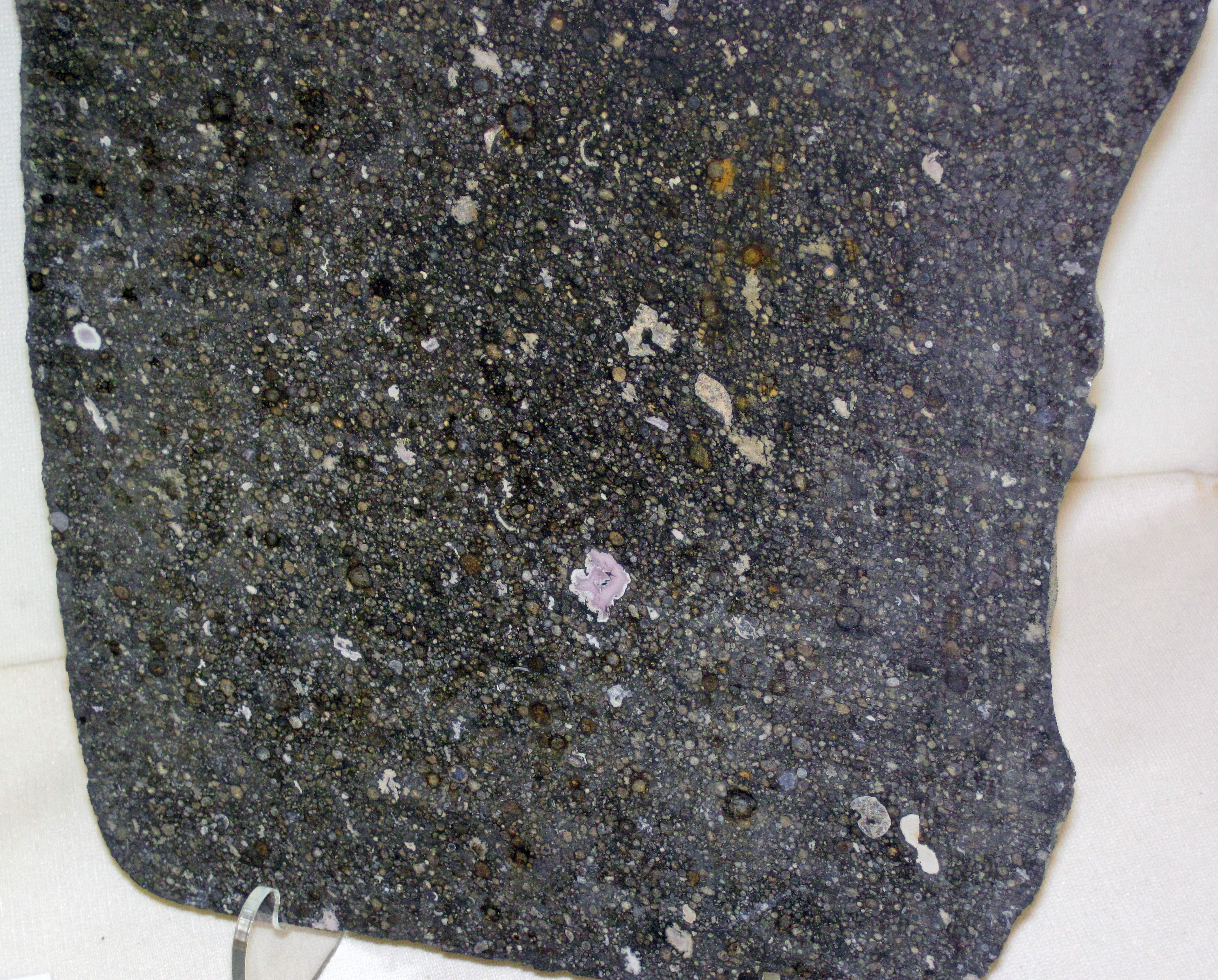 Carbonaceous chondrite - large slice (549 grams) of the Allende Meteorite. (Maine Mineral & Gem Museum collection, Bethel, Maine, USA) Carbonaceous chondrites are dark gray to blackish-colored chondrite meteorites with a relatively carbon-rich matrix. The first large sampling of carbonaceous chondrites available to meteoriticists came with the 1969 fall of the Allende Meteorite. Before Allende, carbonaceous chondrite material was exceedingly rare. Allende has become the most heavily studied and the most famous carbonaceous chondrite. Allende impacted on Earth at 1:05 AM on 8 February 1969. Its known strewn field trends southwest-to-northeast in the vicinity of the town of Allende in southeastern Chihuahua State, northern Mexico. The slice shown above displays the internal structure & composition of the Allende carbonaceous chondrite. Allende has small, spherical to subspherical structures called chondrules (all chondrites have these). Allende also contains whitish, irregularly-shaped patches called CAIs (“calcium-aluminum inclusions”), composed of high-temperature Ca-Al-Ti silicates & oxides. The blackish, fine-grained, carbon-rich matrix consists of Fe-olivine & poorly graphitized carbon. A few tiny specks of metallic iron-nickel alloy also occur. Allende rocks represent the near-oldest meteoritic material known. The olivine chondrules in Allende rocks date to 4.560 billion years. The CAIs in Allende rocks date to 4.568 billion years.